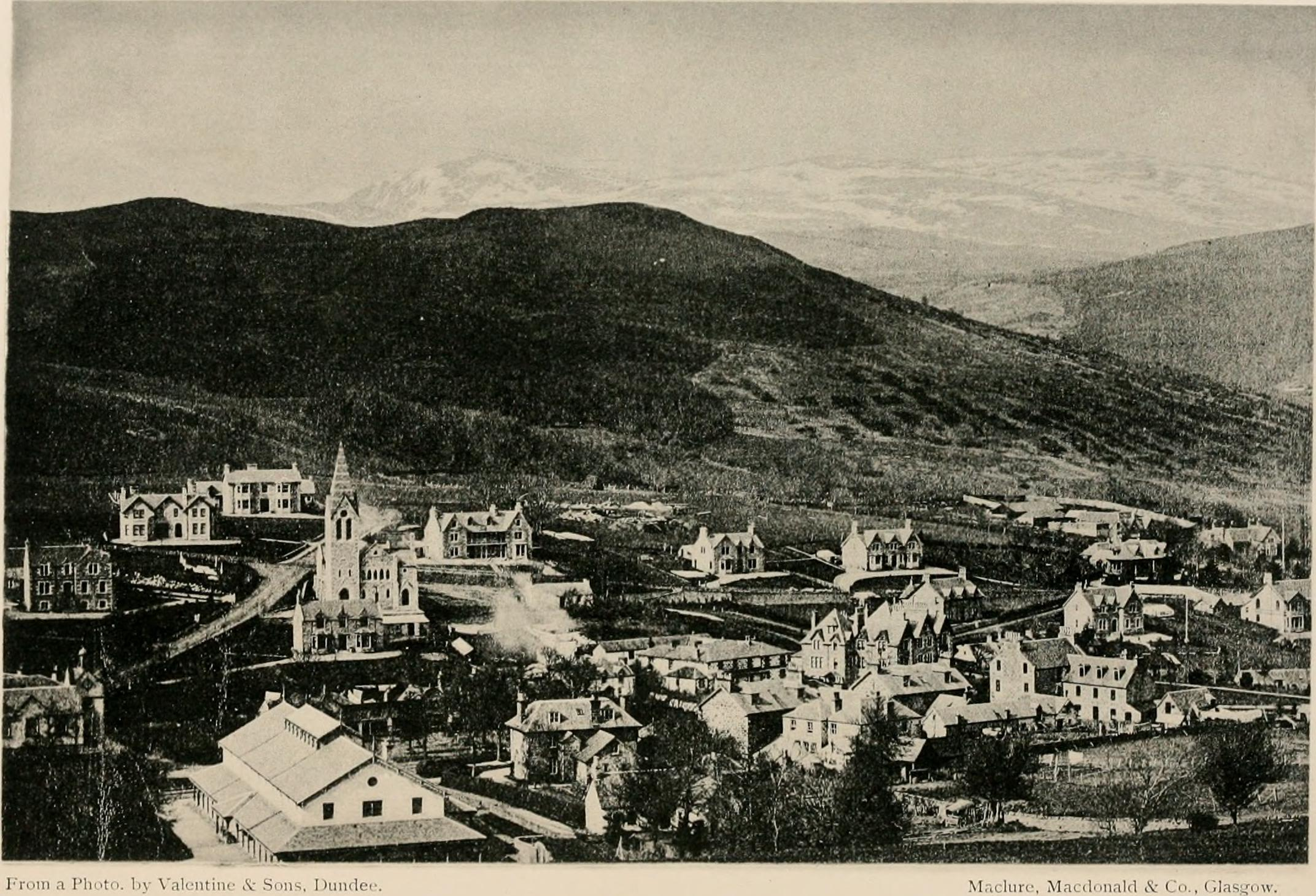 Title: Strathpeffer Spa : its climate and waters : with observations historical, medical, and general, descriptive of the vicinity Year: 1889 (1880s) Authors: Fox, Fortescue Subjects: Health resorts -- Scotland Strathpeffer Mineral waters -- Scotland Strathpeffer Strathpeffer Region (Scotland) Publisher: London : H.K. Lewis Text Appearing Before Image: , the steeper mountains which encloseLochs not a few, and in the distance farScuir Vullens twin-shaped peaks, a landmark plain. Here late I wandered, pilgrim of the Earth Scaled the hillside and on the lonely top Stood long in thought. . . . The western squall had hung His heavy drapery oer the northern hills, Black glowered the storm-cloud oer Inchvarmies Heights, And through the mists and rain Ben Wy\-is showed But a faint vision of his awful form. The everlasting hills surrounded me. The inconstant heavens played oer hill and dale In sunny smile, or frowning storm again, Or rains mild influence, but the mountain shapes Abide unchanged, their outline rough and bare The same as eke it was in ancient days. When hardy Picts their darksome forests tracked. And watched the shining Firth from this same hill : The same as when Mackenzie of Kintail Lord of Kinellans Isle, upon this ridge Oercame proud Munro, and in yonder Strath Set up, in memory, the Eagle Stone.* Vide section Antiquities. Text Appearing After Image: CHAPTER XI. BEN WYVIS.